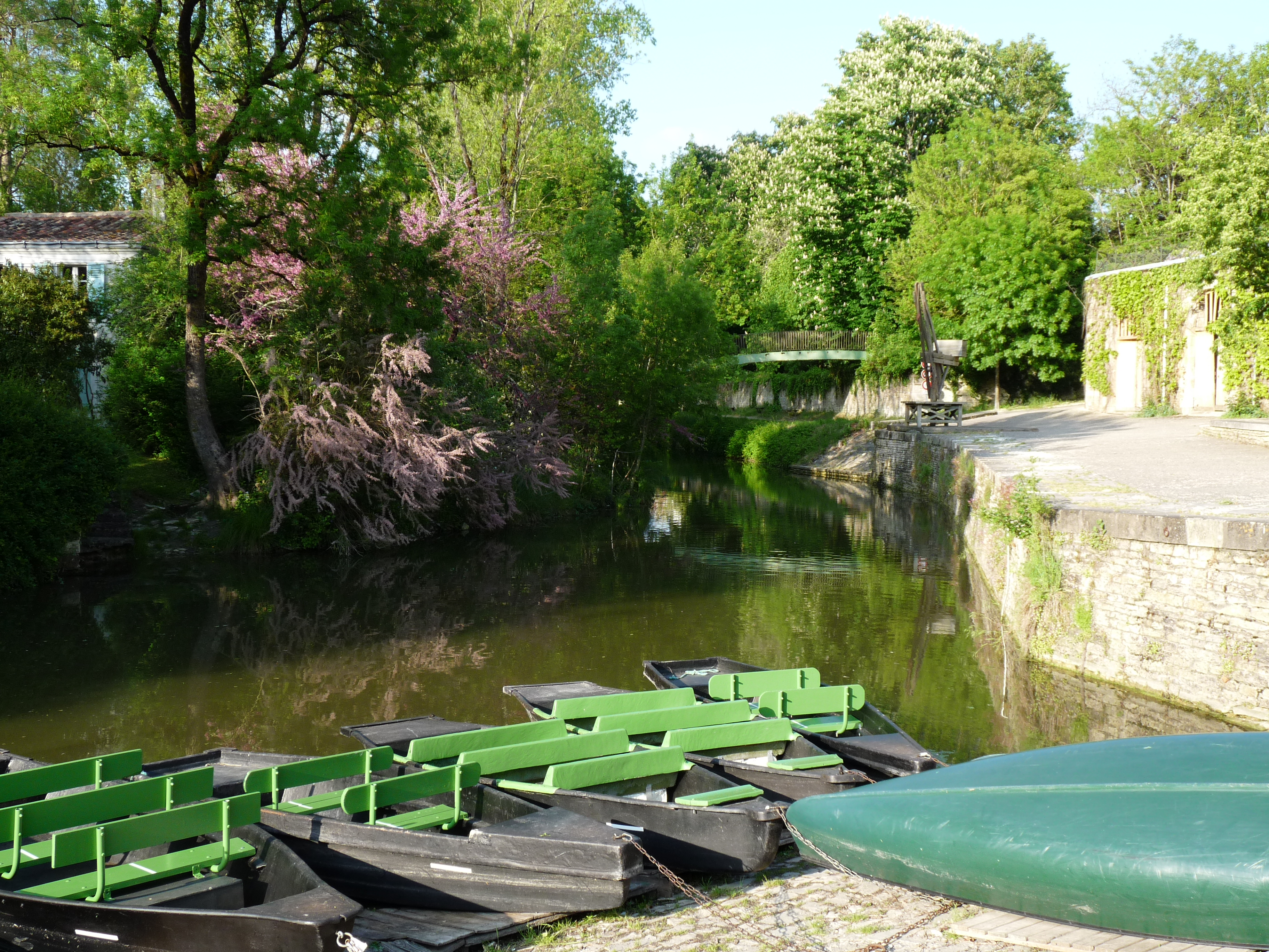 Port of Arçais (Deux-Sèvres)